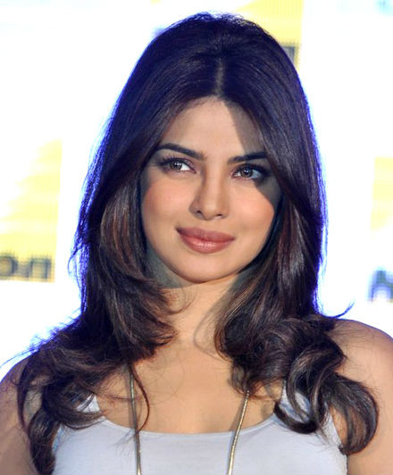 Priyanka nikon camera